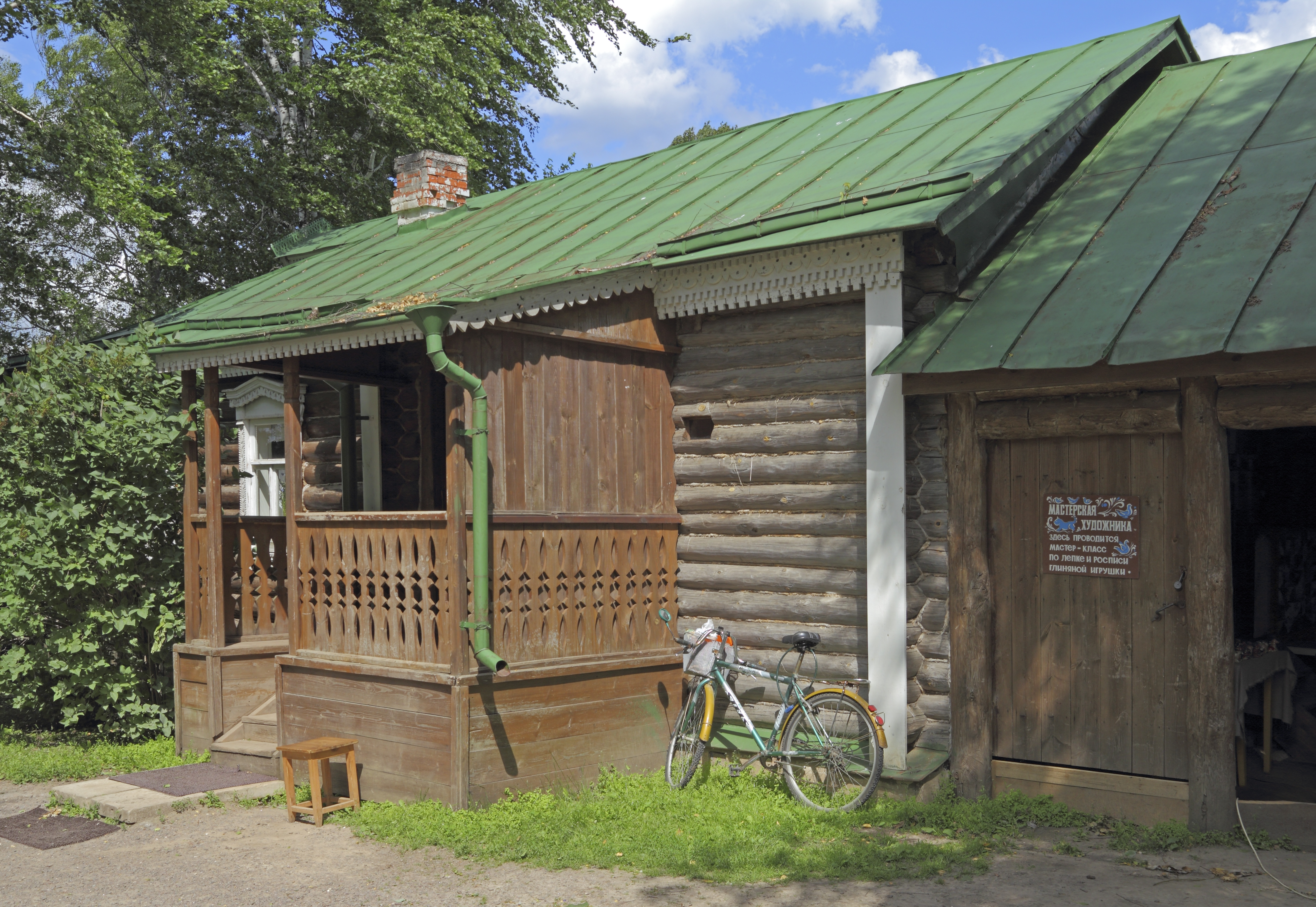 Museum of poet Sergei Yesenin in Konstantinovo village, Ryazan Oblast, Russia – native house of Yesenin